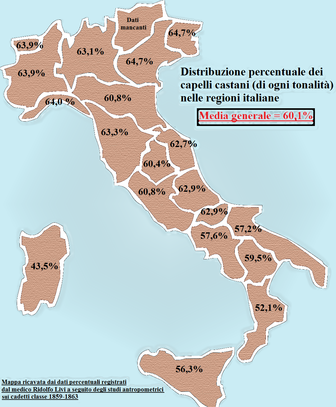 Percentage of brown hair in the italian regions.